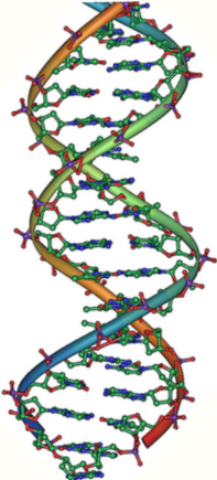 Image of DNA in it's double helix structure